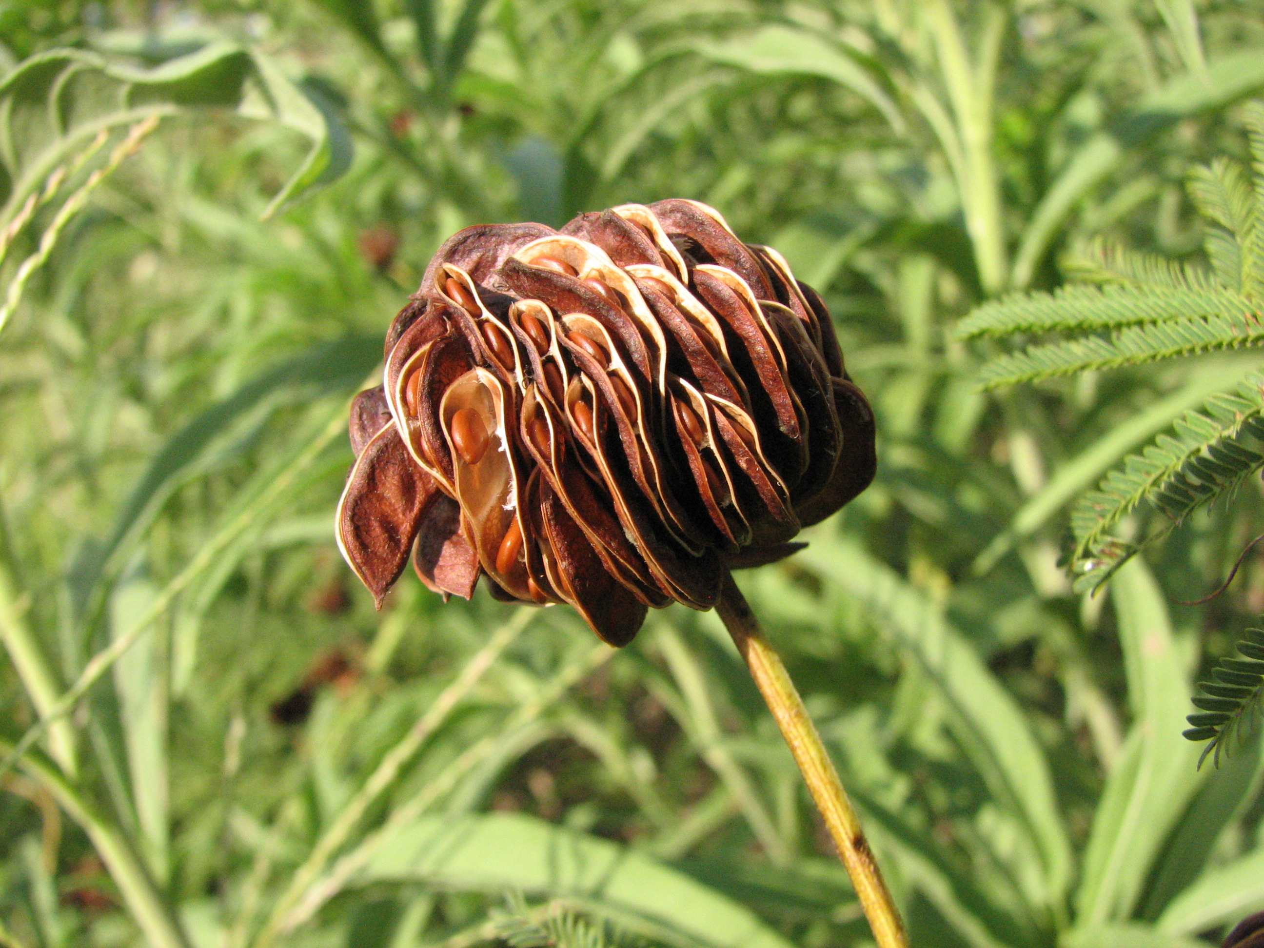 Ripe pods of desmanthus illinoensis showing seeds.